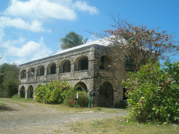 The Danish hospital building located at Estate Little Princess — on St. Croix in the Christiansted region, United States Virgin Islands. Estate Little Princess was Danish colonial sugar plantation during the Danish West Indies era. A National Historic Landmark, and on the National Register of Historic Places in the United States Virgin Islands.